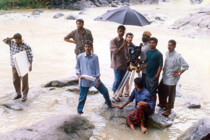 Shooting still from athisayalokam